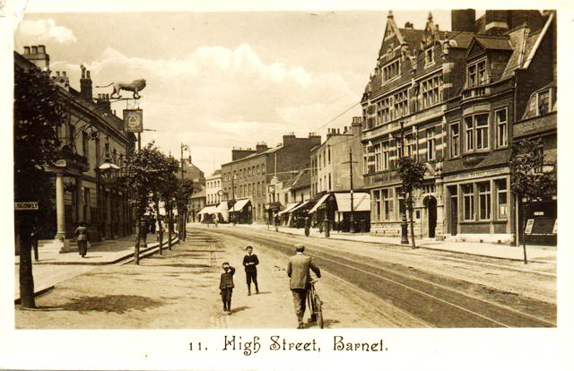 Barnet